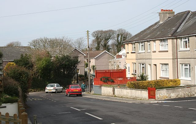 Tencreek, Newquay. A mixture of older housing and modern holiday apartments just visible in the centre of the image the terrace of houses.